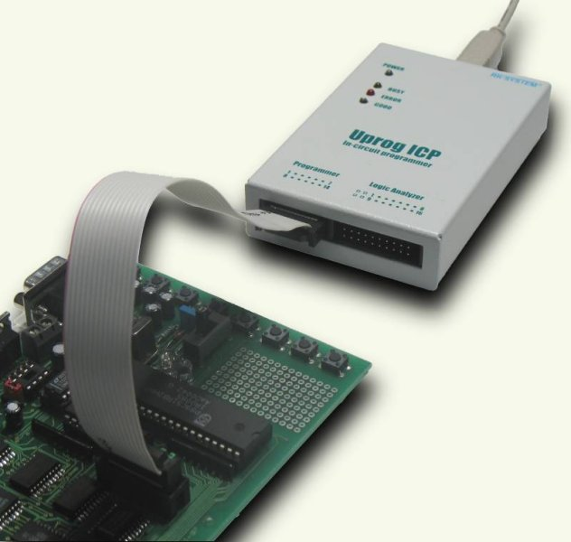 In system programming adapter